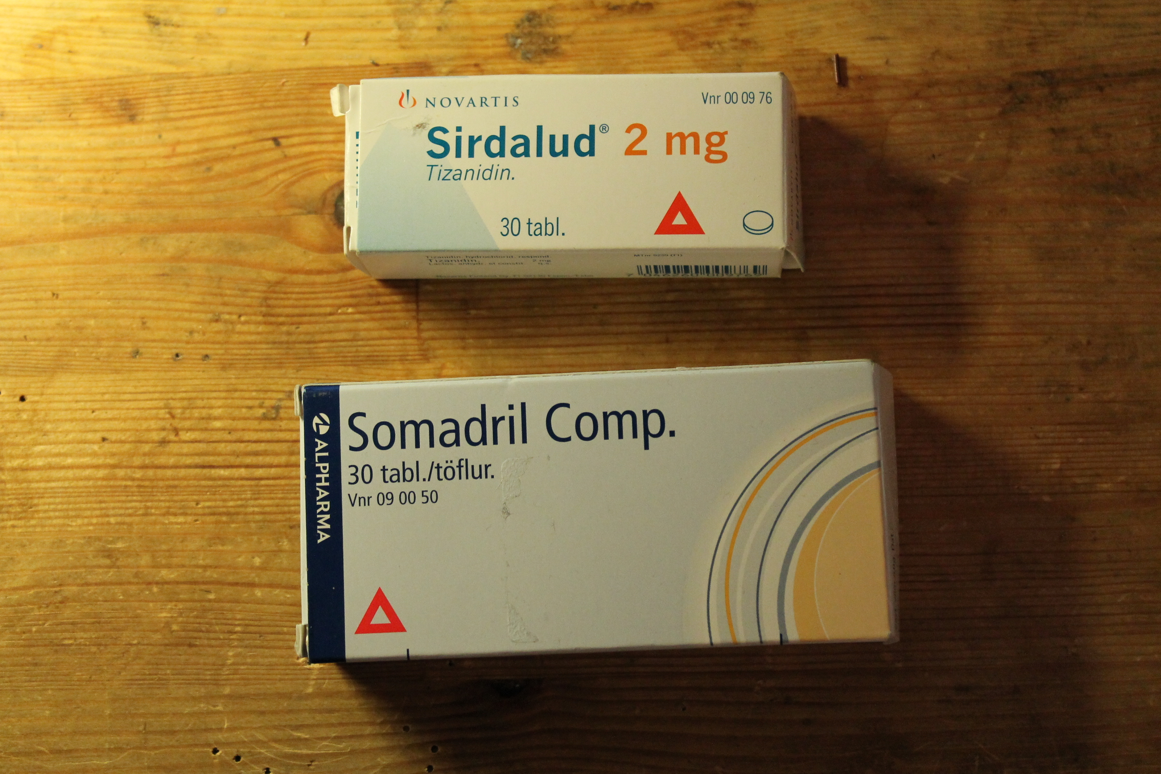 Muscle relaxants — Sirdalud (tizanidine) and Somadril Comp. (carisoprodol + paracetamol + caffeine).